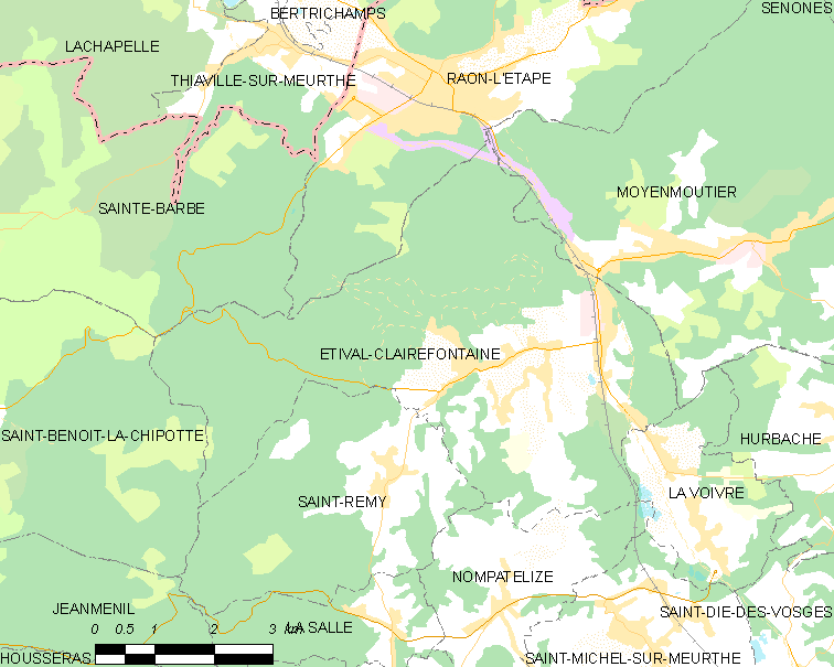 Map of French municipality Étival-Clairefontaine